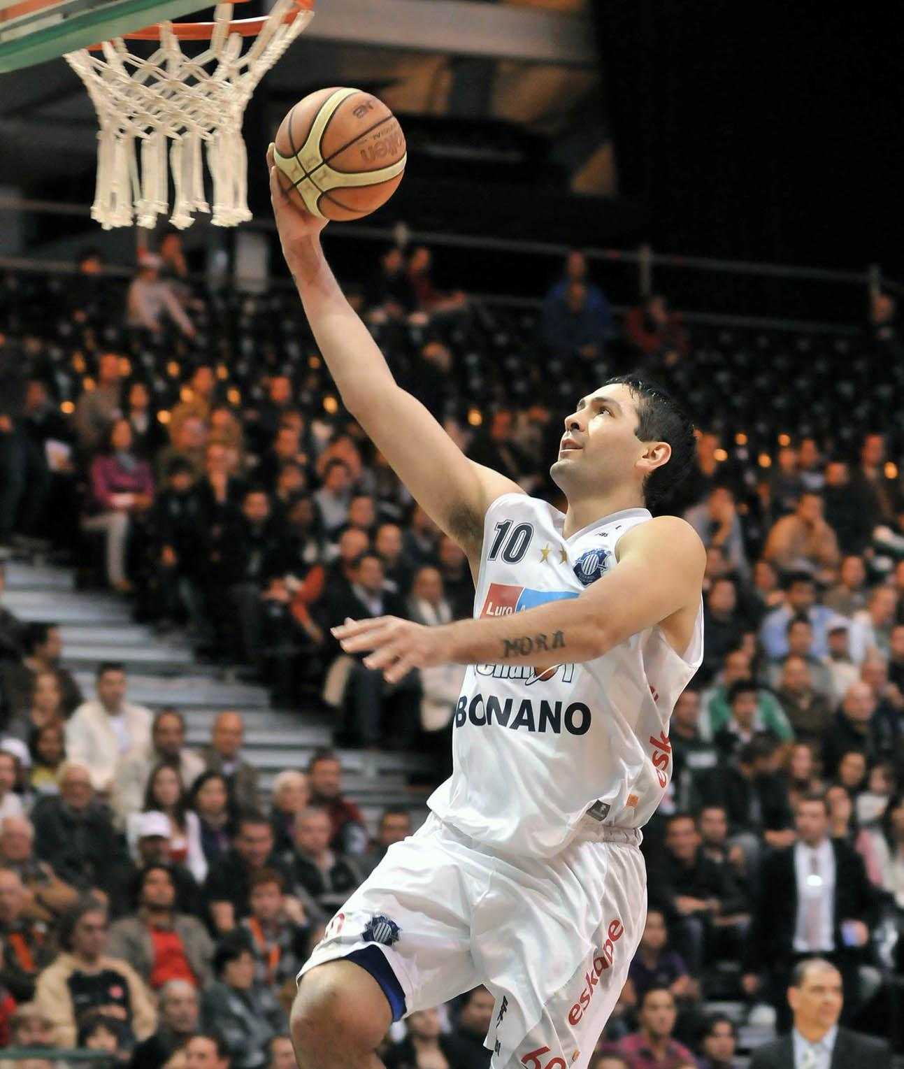 Peñarol player Leonardo Gutiérrez makes a layup in a game of the Finals against Atenas, May 2011.